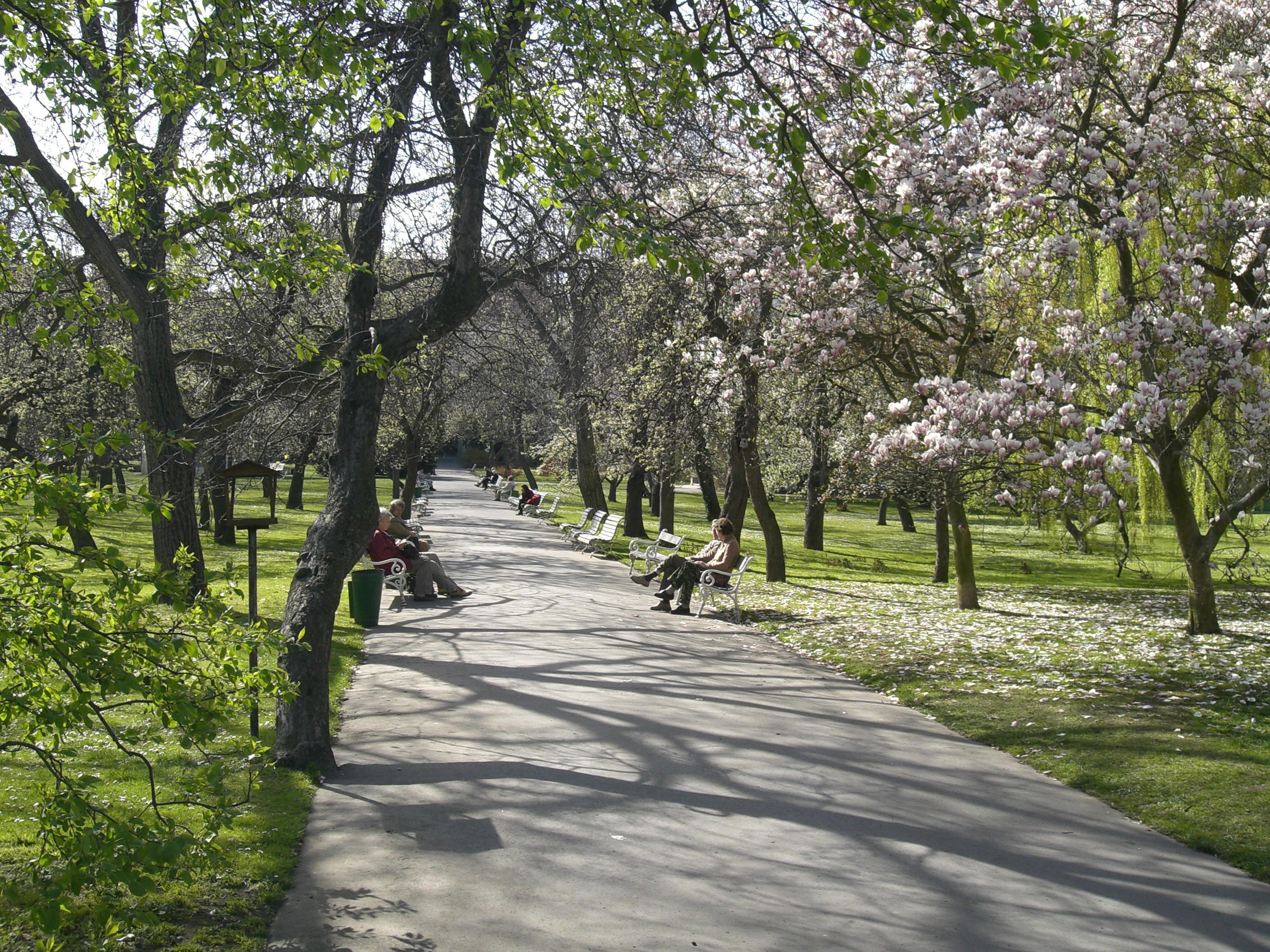 Vojanovy sady, Prague, Czech Republic